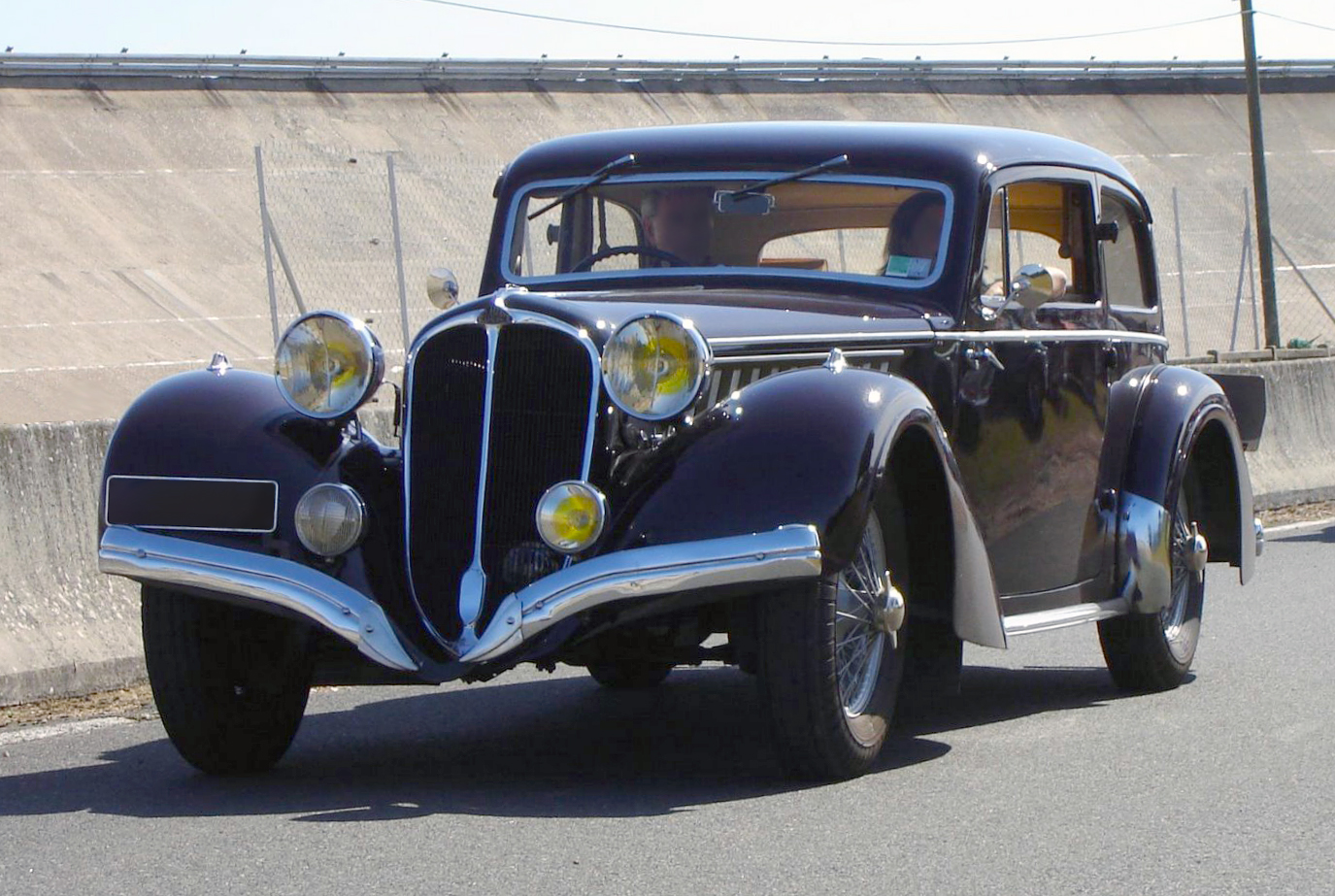 1936 Delahaye 135 Coach Coupe des Alpes (Chapron), at Montlhéry 2009